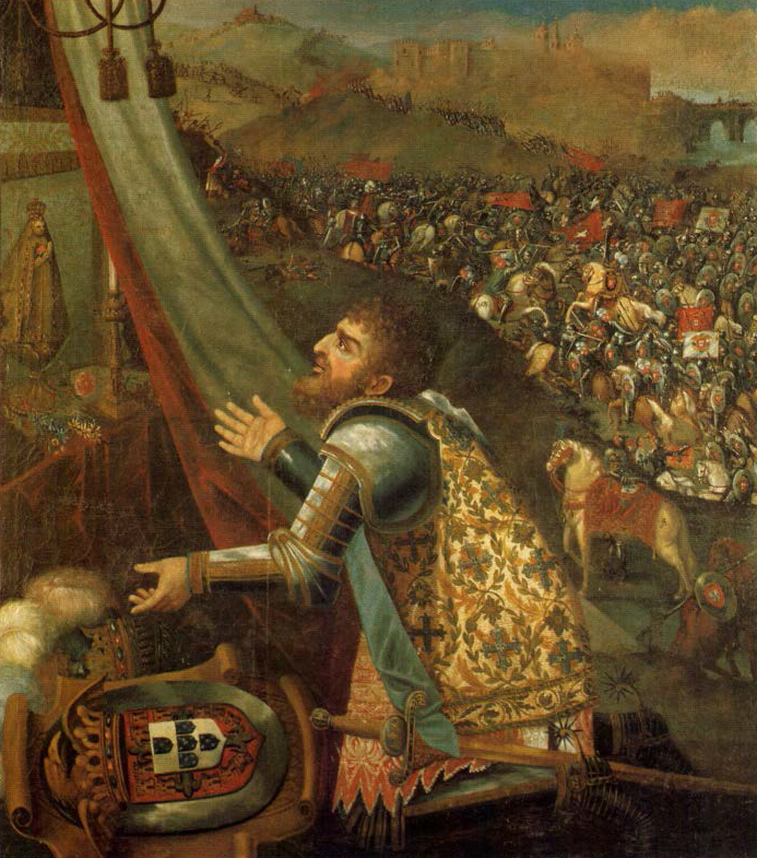 King John I of Portugal makes a vow to the Virgin Mary that if he wins the Battle of Aljubarrota (1385) against Castille, he will build a monastery on that site to thank her aid (the future Monastery of Batalha).